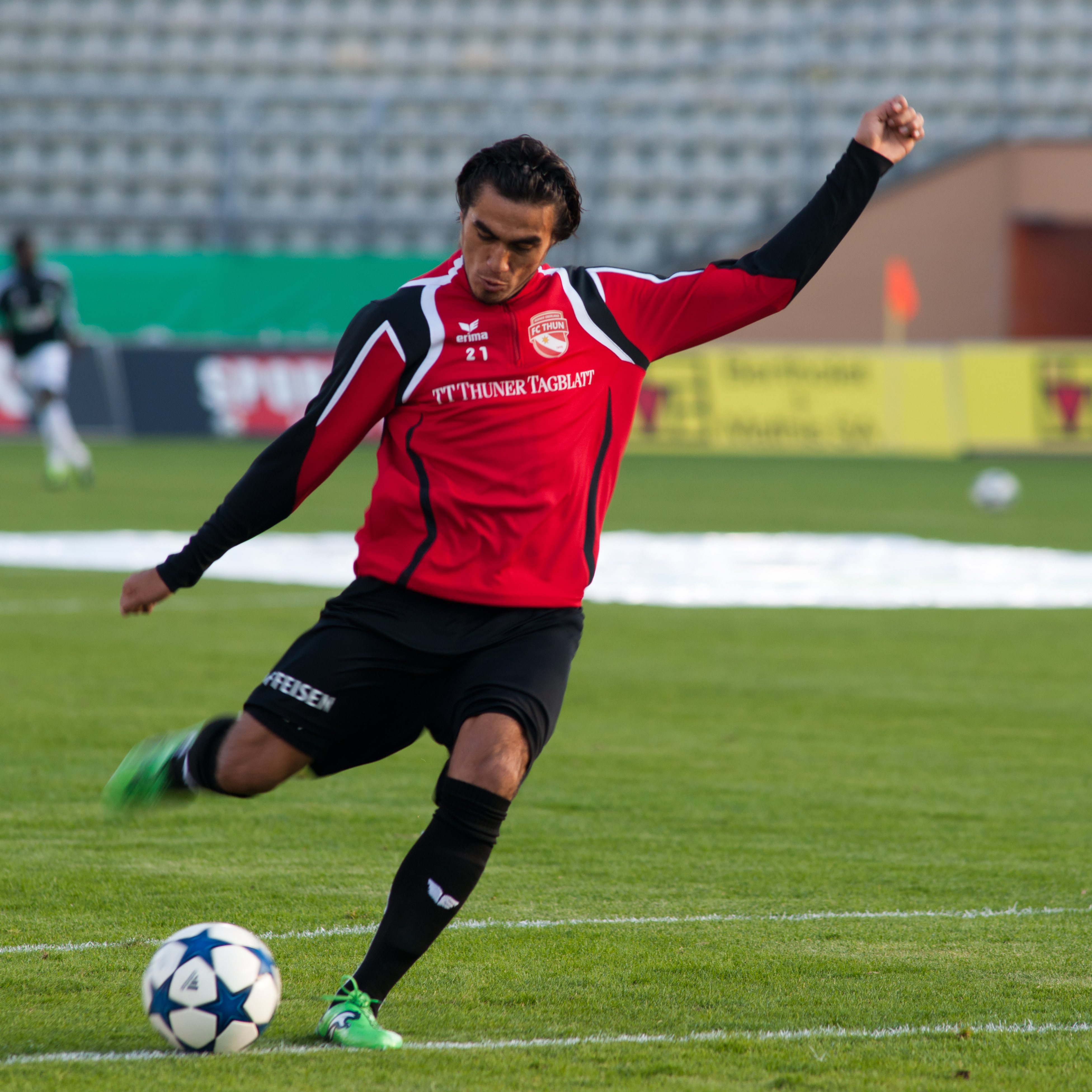 The making of this document was supported by Wikimedia CH.(Submit your project!) For all the files concerned, please see the category Supported by Wikimedia CH. Lausanne Sport vs. FC Thun - 22.10.2011